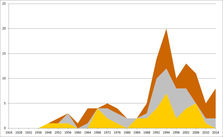 Italian medals at Winter Olympic Games